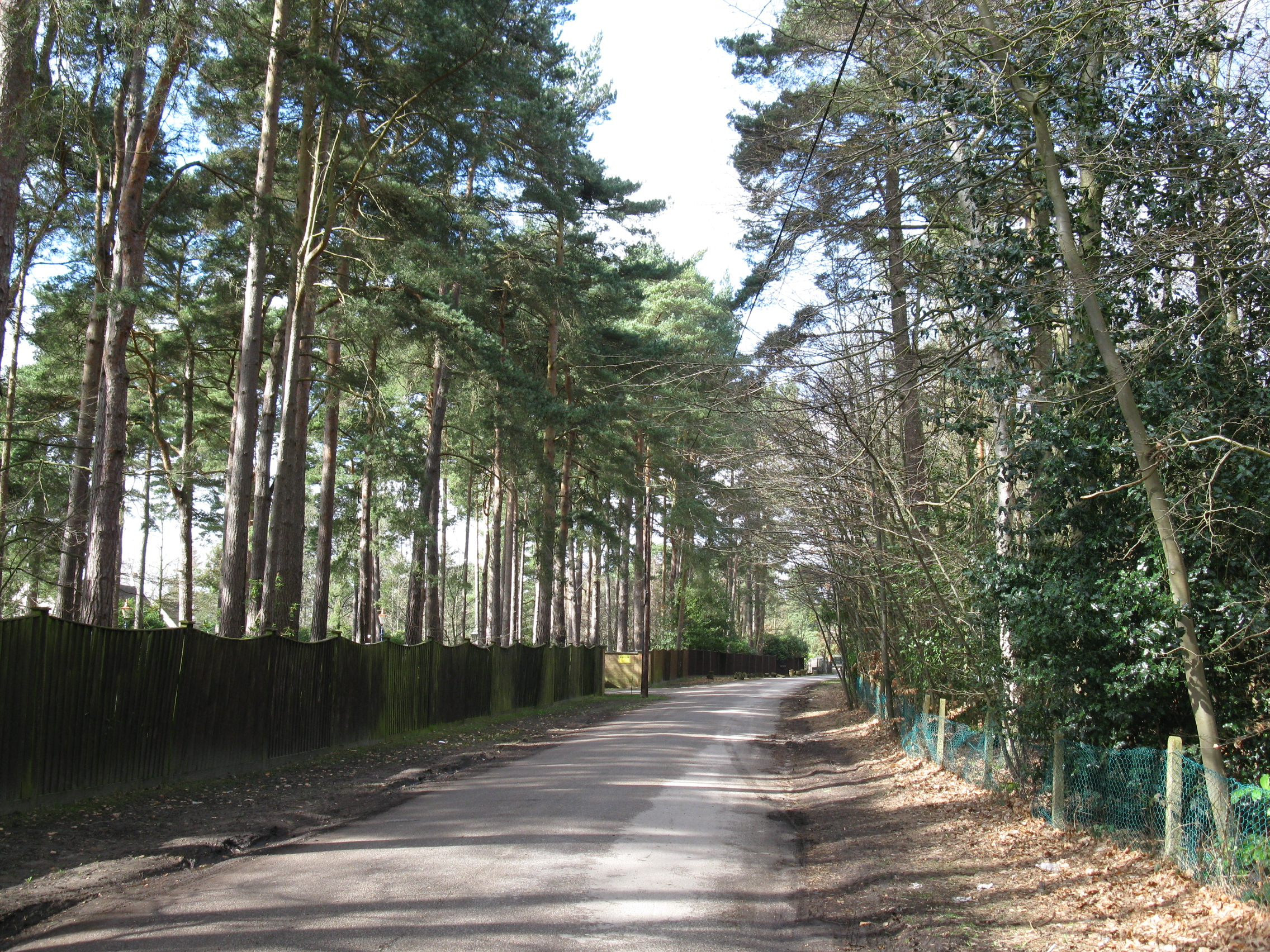 Bodens Ride, South Ascot This is a private road that leads to Swinley Forest Golf Club.